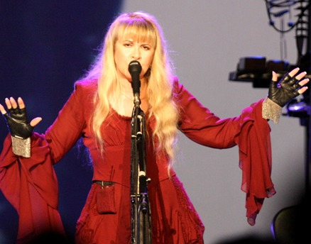 Stevie Nicks And Dave Stewart Perform At Sydney Entertainment Centre.